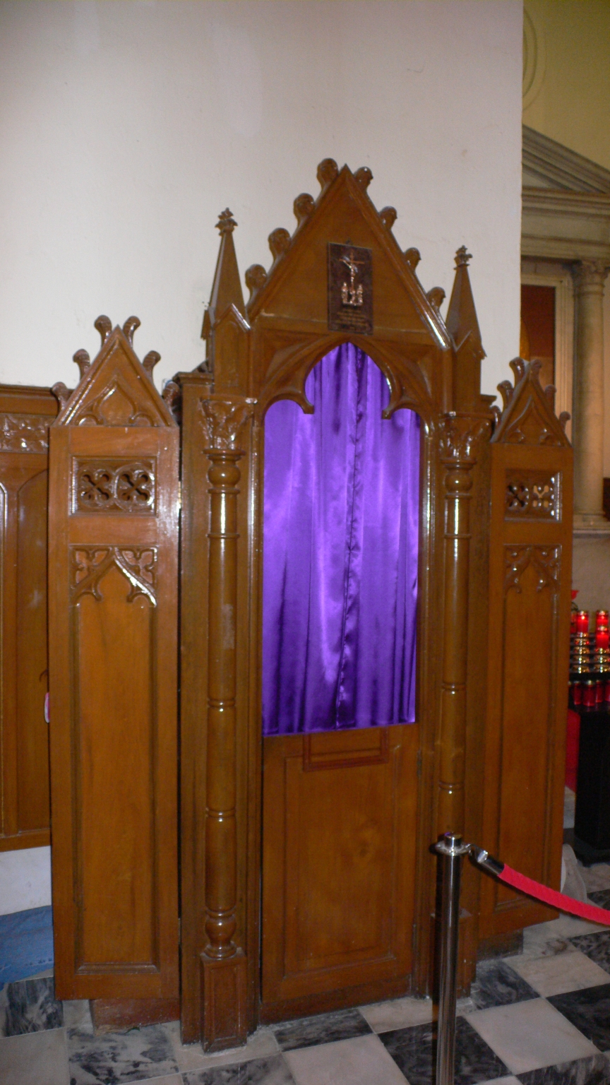 A Confessional box built in 1952 in Immaculate Conception Cathedral of Hong Kong